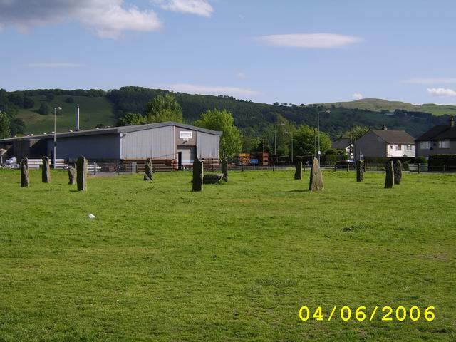 Stone Circle At Bala. Created for the National Eisteddfod.